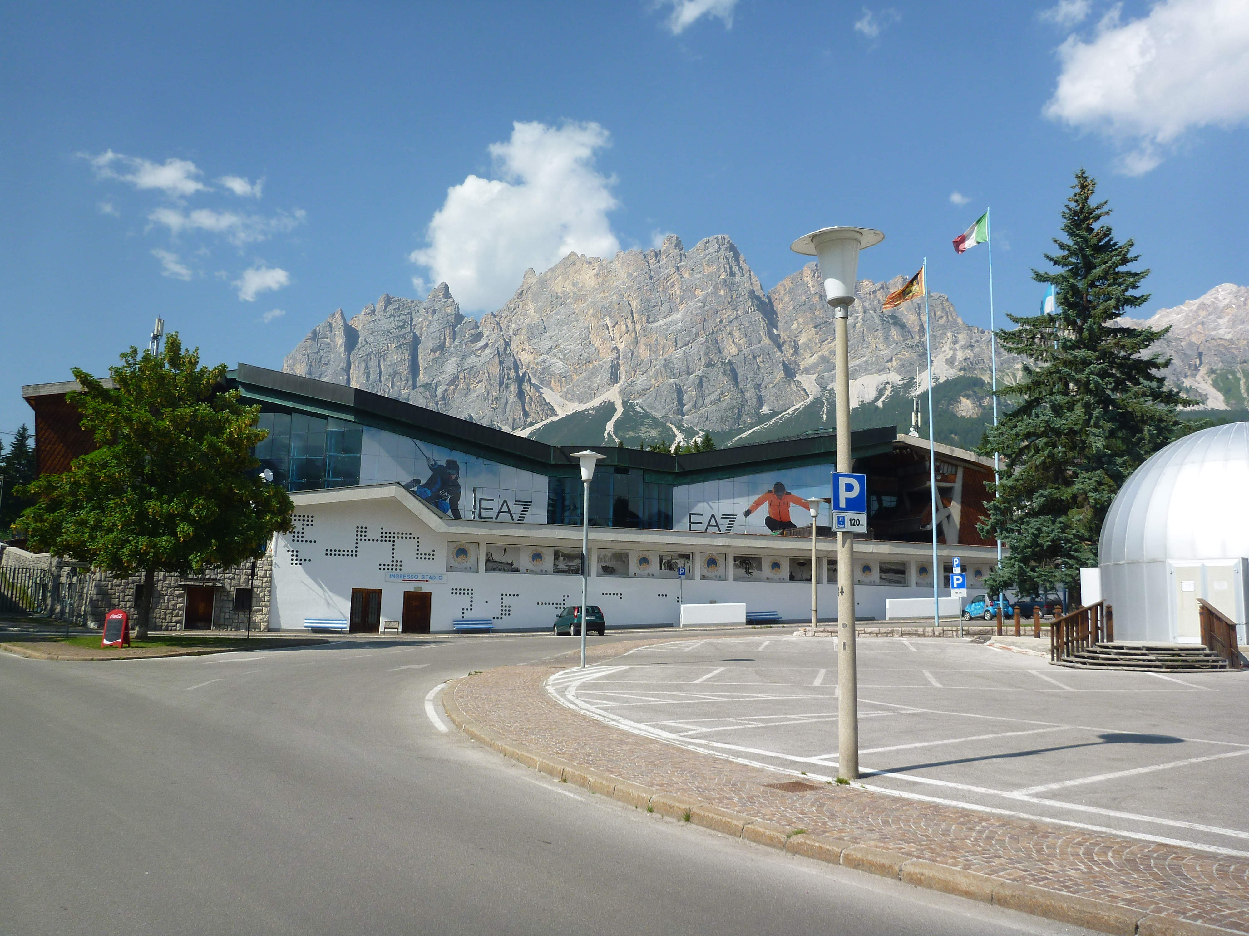 Stadio Olympica, Stadio Olimpico del Ghiaccio (Italian: Olympic Ice Stadium) in Cortina d’Ampezzo